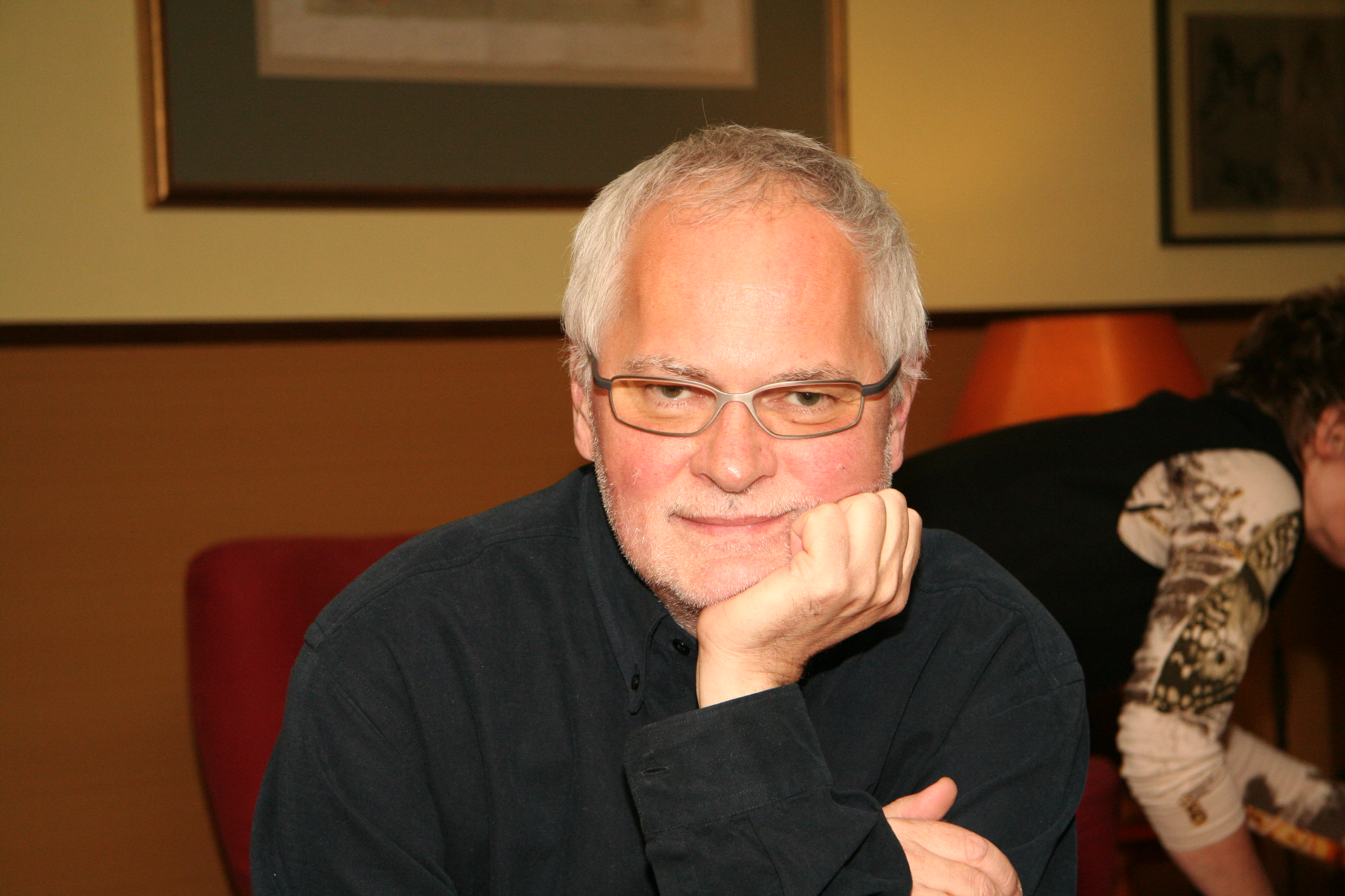 Ryszard Szeremeta, Polish Composer